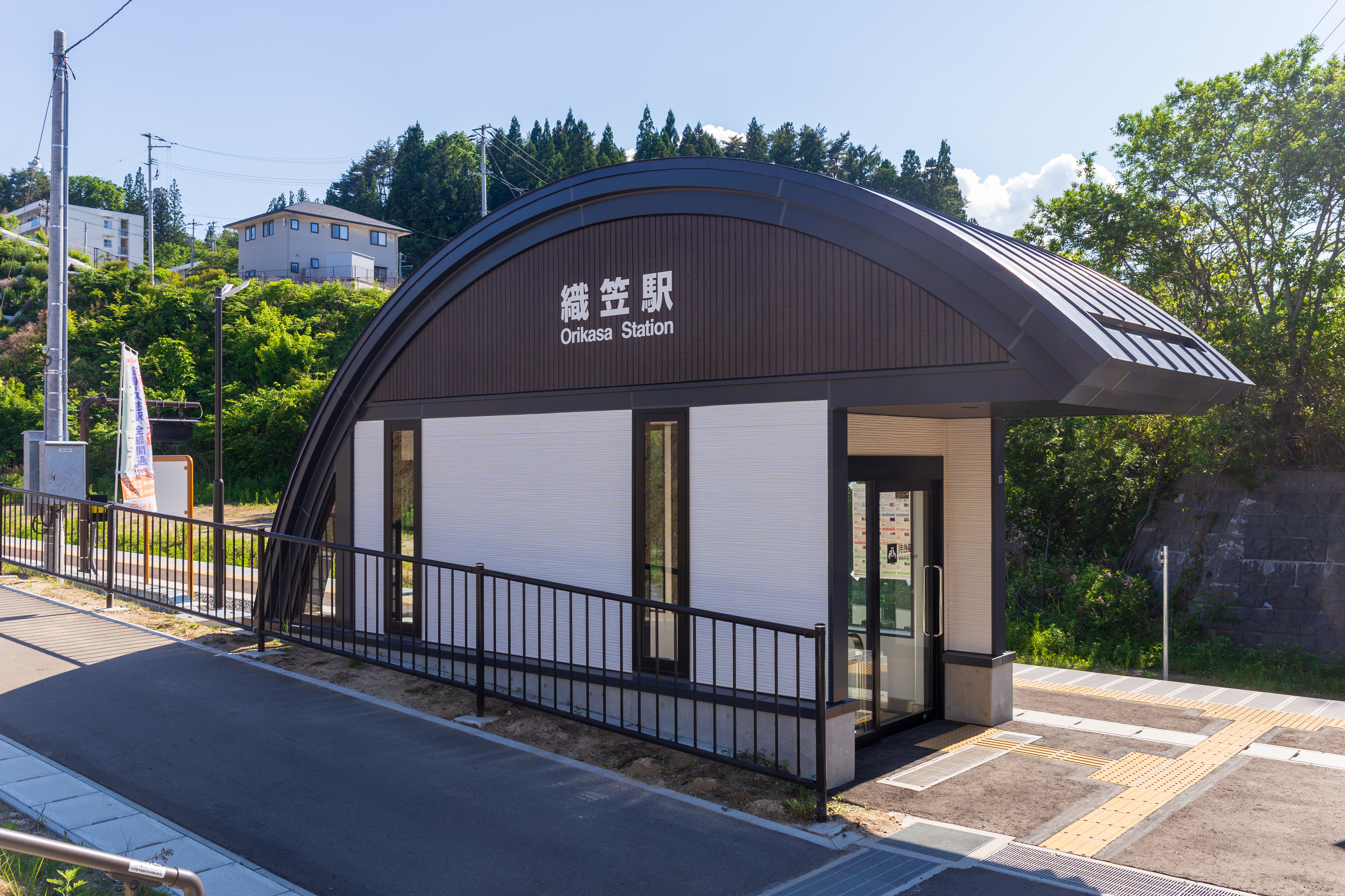 Sanriku Railway Orikasa Station in Yamada Town, Iwate Prefecture, Japan